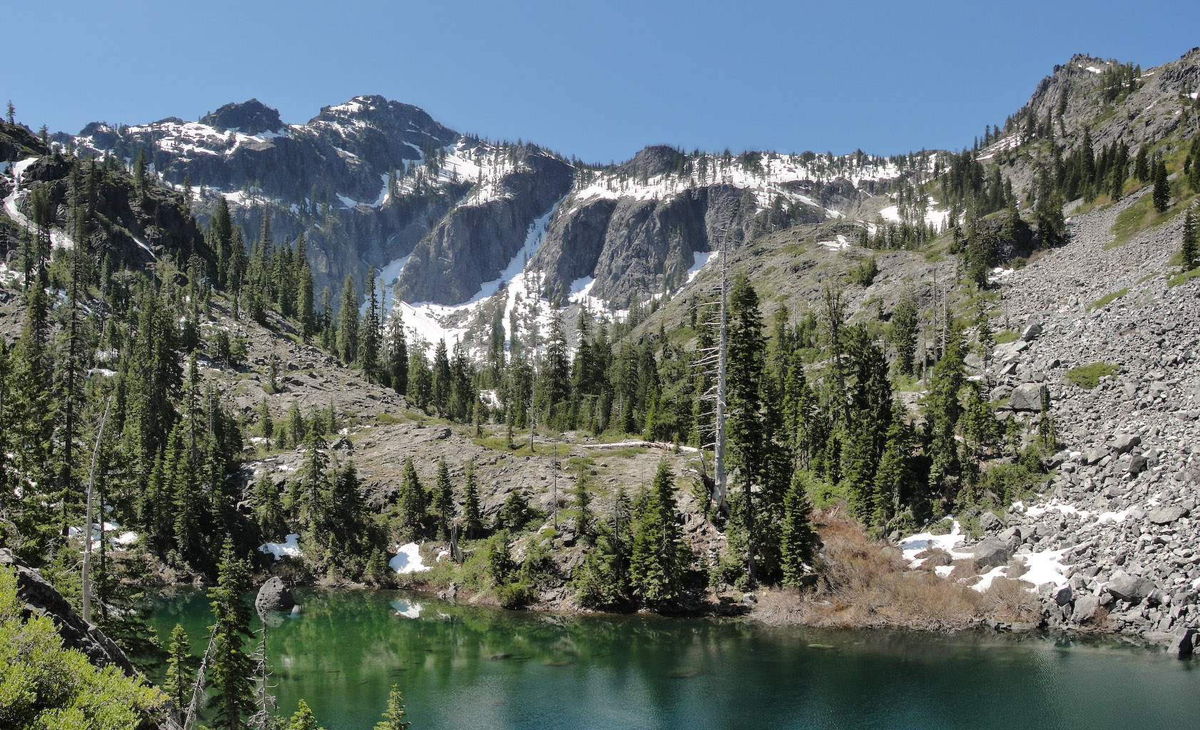 Bear Mountain and tarn below the Devils Punchbowl tarn in the Siskiyou Wilderness The Siskiyou Mountains are a sub-range within the Klamath Mountains System.